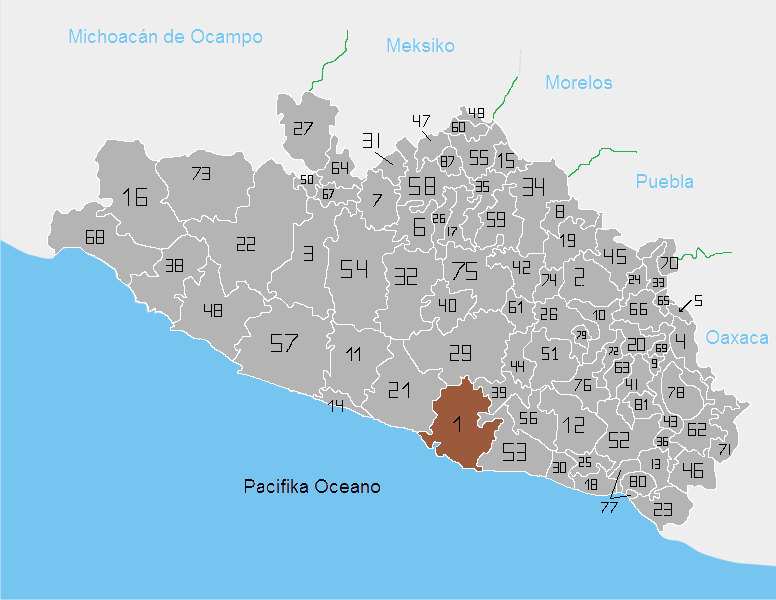 locator map of region Acapulco in mexican state Guerrero